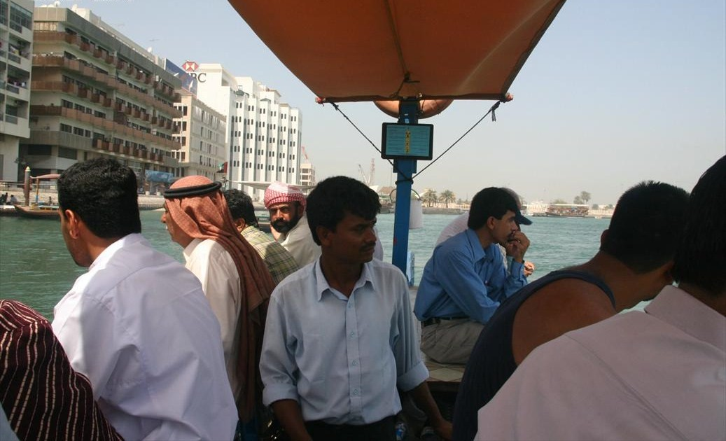 This is a photo showing passengers on an abra crossing Dubai Creek in Dubai, United Arab Emirates heading for Deira on 9 May 2007.